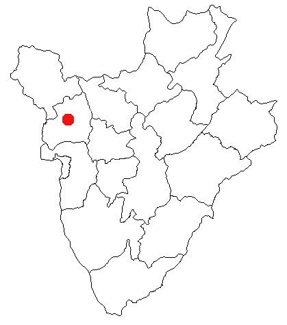 Bubanza, Burundi Location Map; created with the GIMP. Made by User:Acntx.